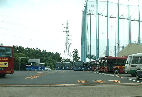 Headquarters office of "Keisei transit bus" in Chiba